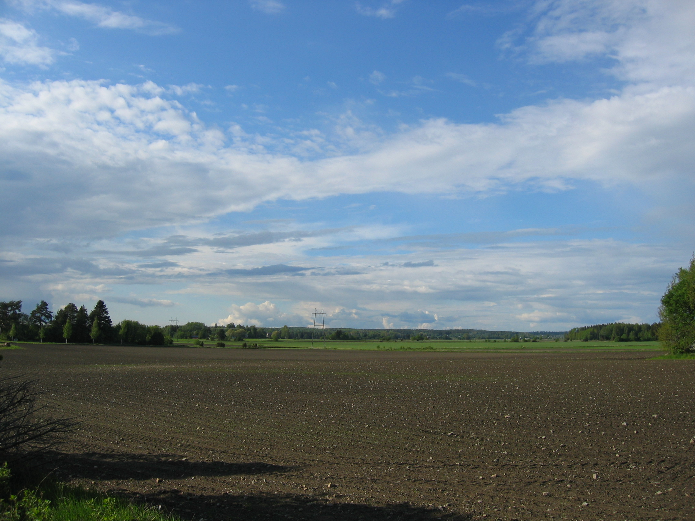 Fields in Mietoinen, Finland. Picture taken in the Kaukurla village.